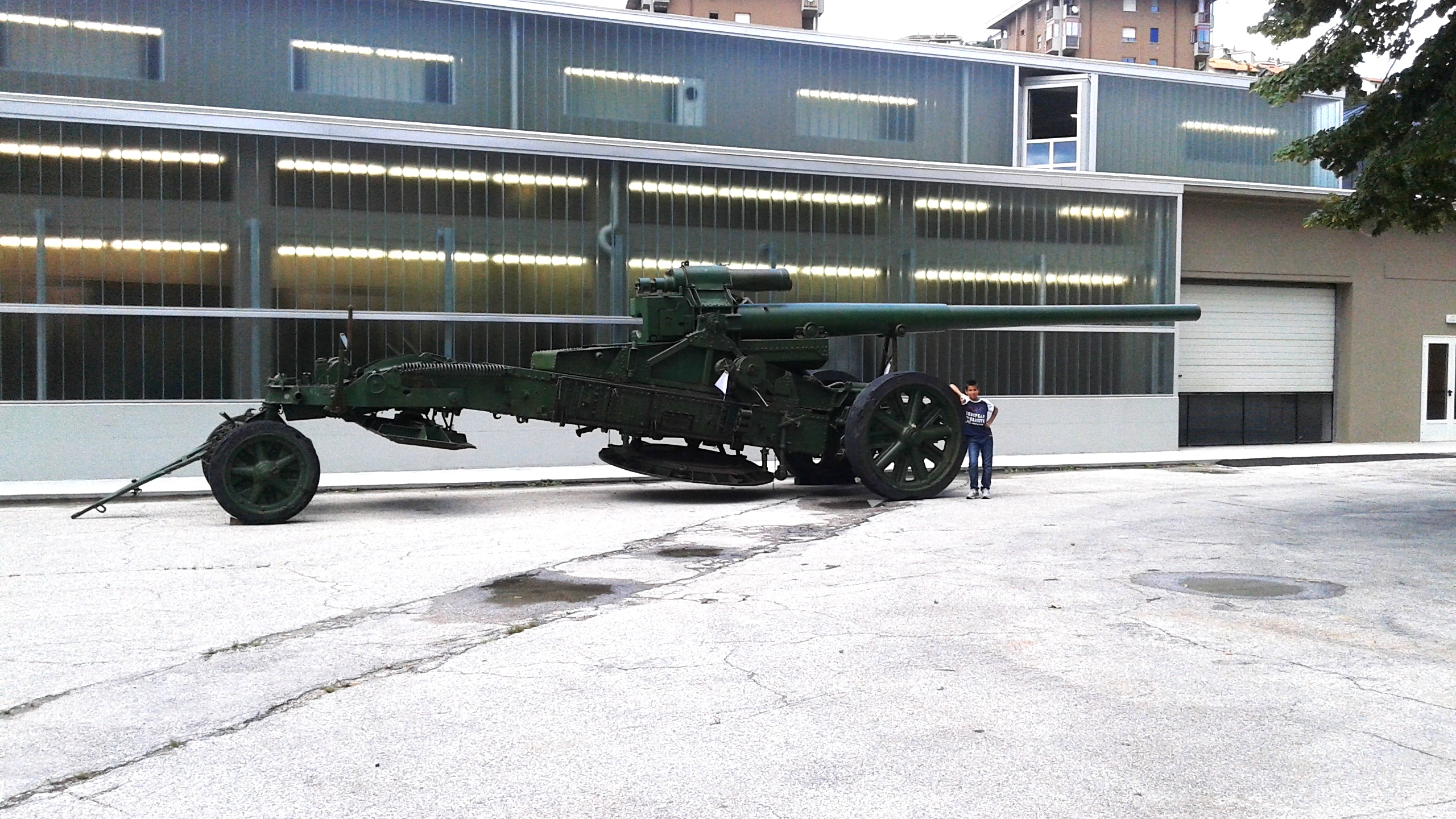 17 cm Krupp gun (Germany). This WWII German gun is preserved at the Civico Museo della Guerra per la Pace "Diego de Henriquez" (City War Museum for Peace "Diego de Henriquez") in Trieste (Italy).